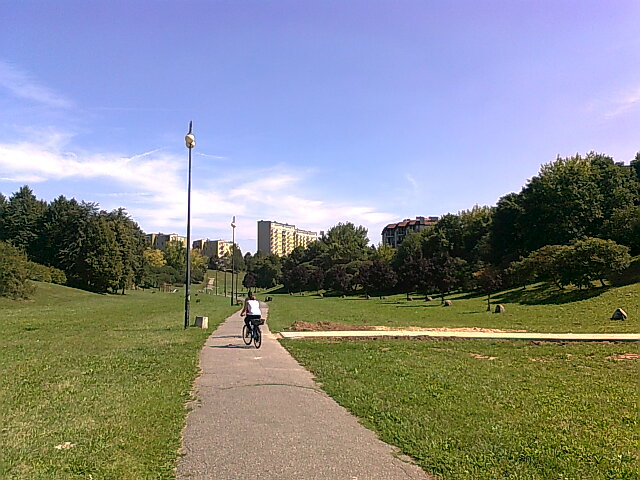 Lublin Miast Parterskich Alley (August 2012)